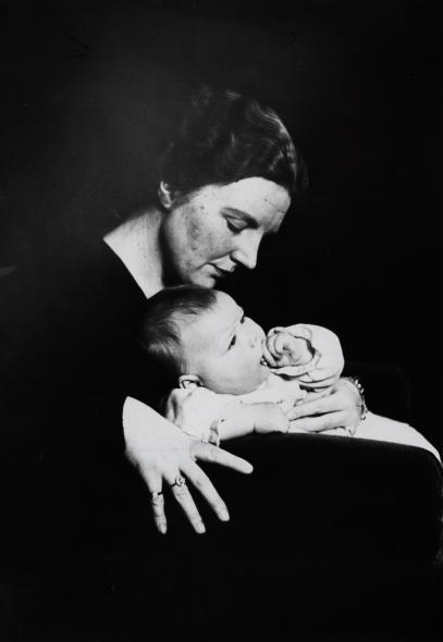 Newborn princess Beatrix with her mother, crown princess Juliana. The Netherlands, 1938